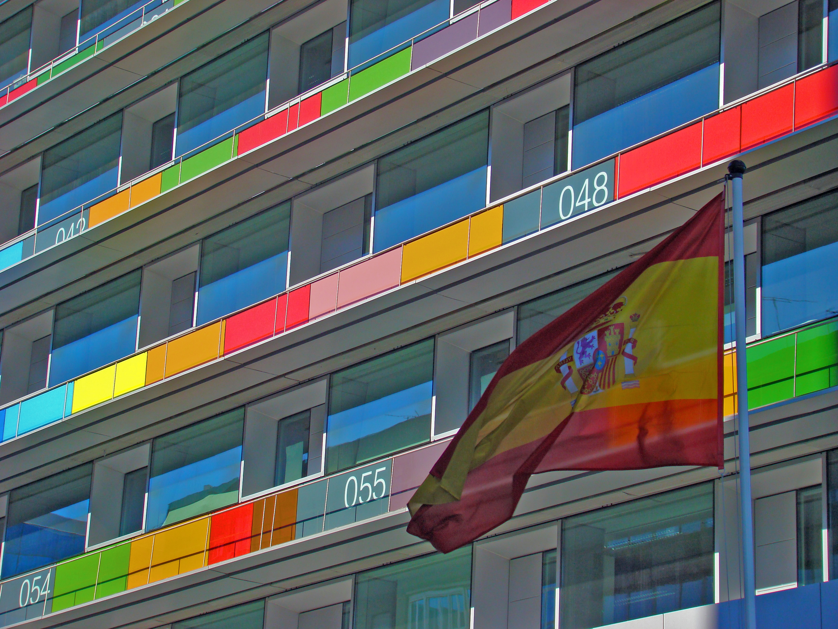 Detail of the façade of the Spanish National Statistics Institute headquarters, at 183 Paseo de la Castellana (avenue) in Madrid.